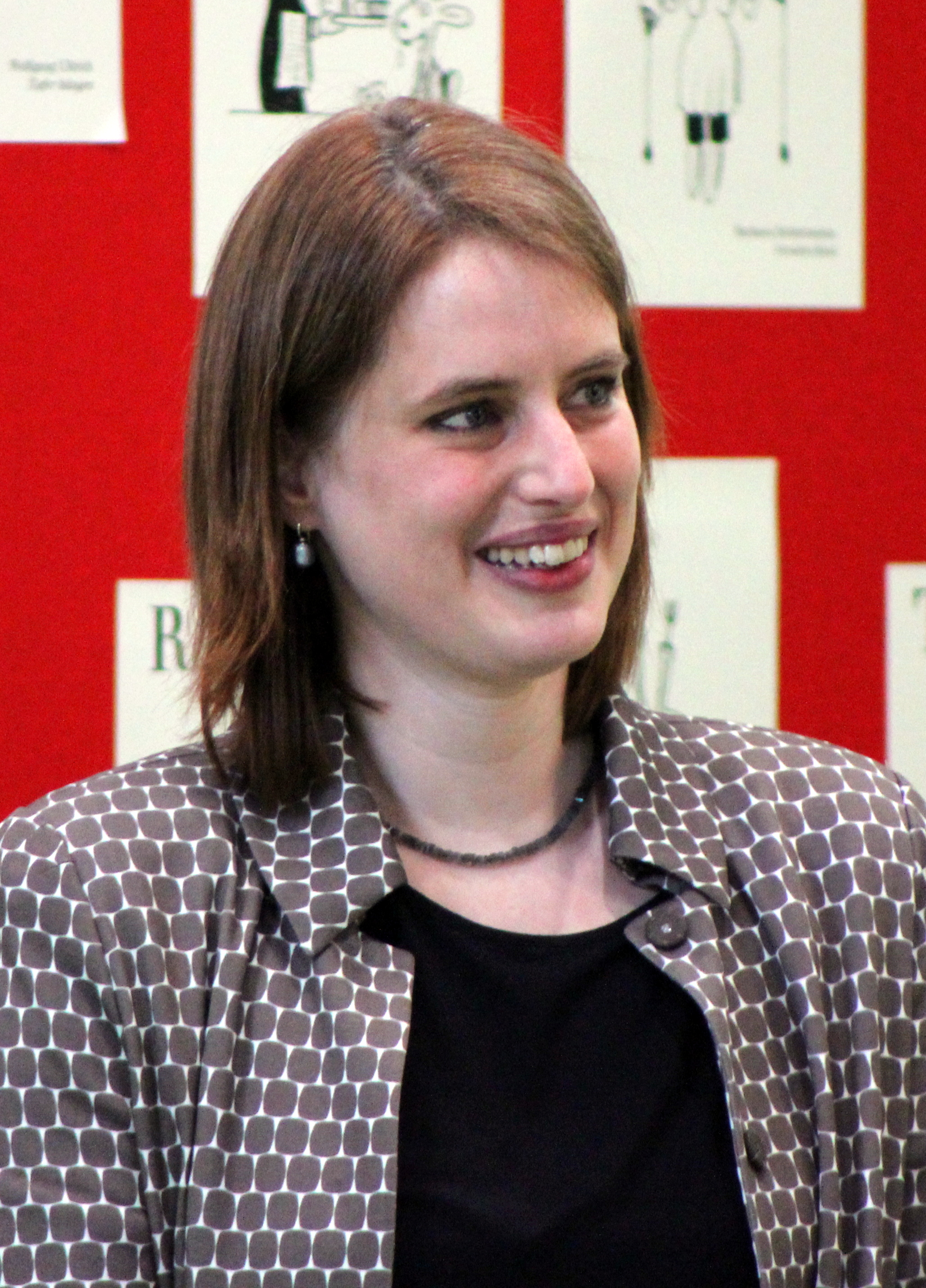 Insa Wilke, Leipzig Bookfair 2014